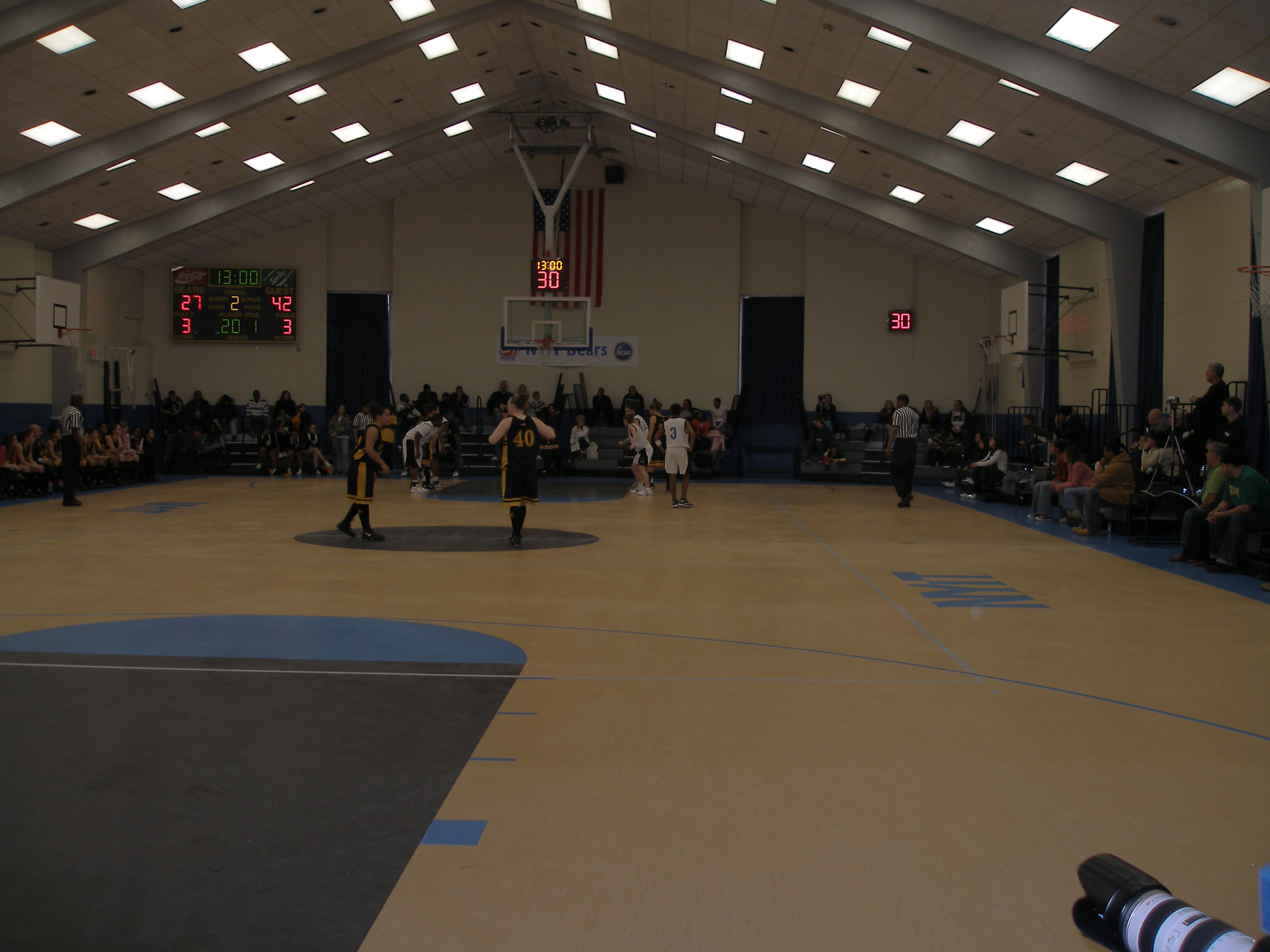 Recreation Hall during the January 27th, 2007 NYIT-Adelphi basketball game.